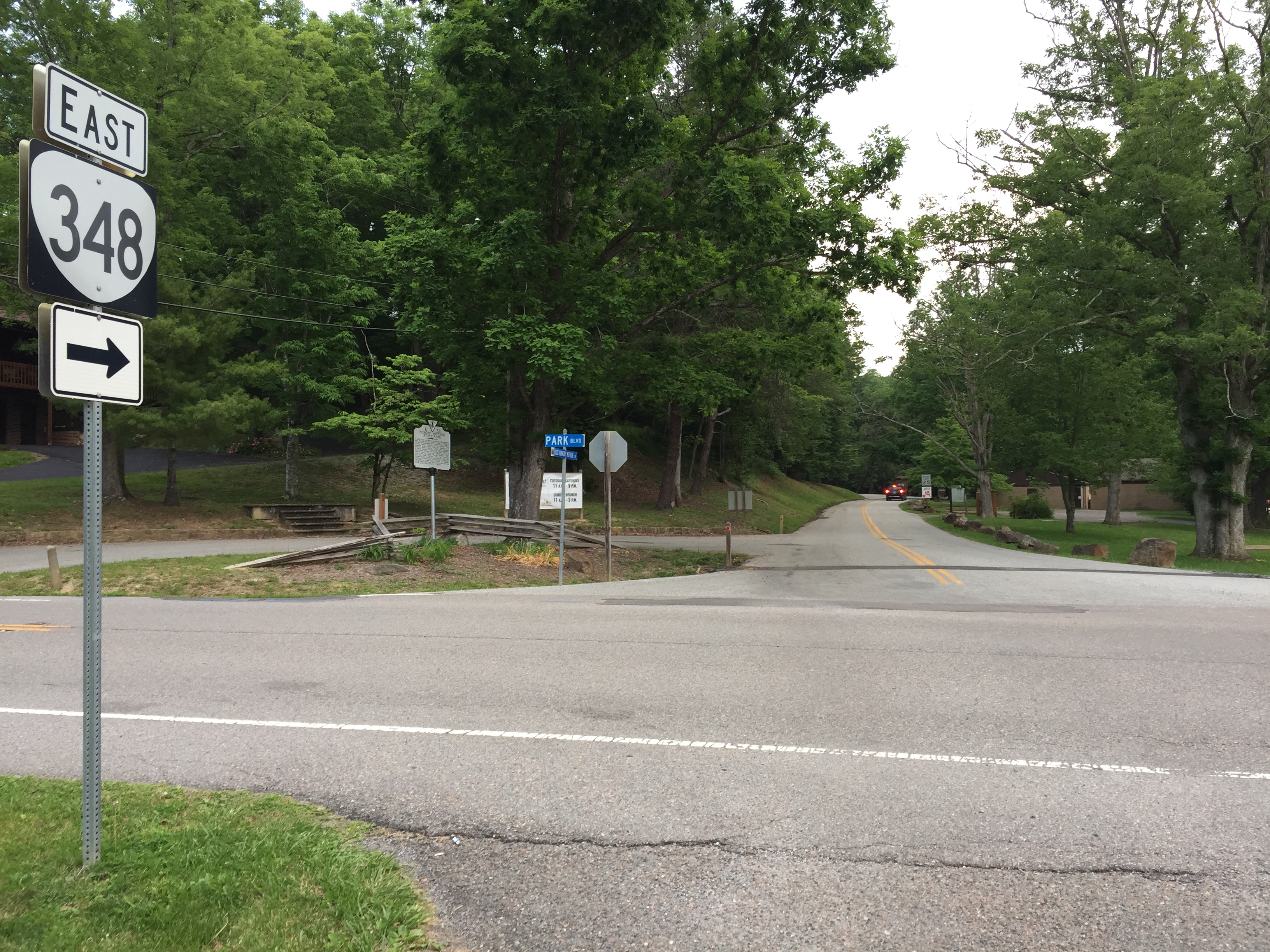 View east along Virginia State Route 348 (Hungry Mother Drive) at Virginia State Route 16 (Park Boulevard/B F Buchanan Highway) at Hungry Mother State Park in Smyth County, Virginia